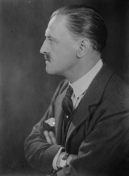 W. Somerset Maugham early in his career.